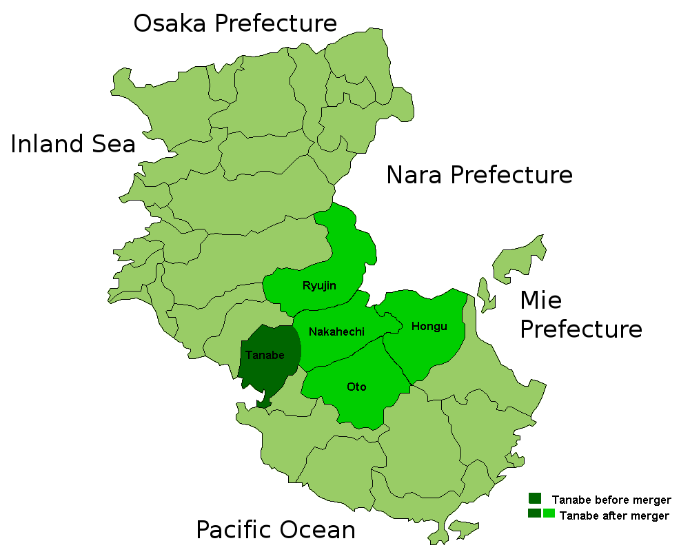 Map of Tanabe Merger 2005